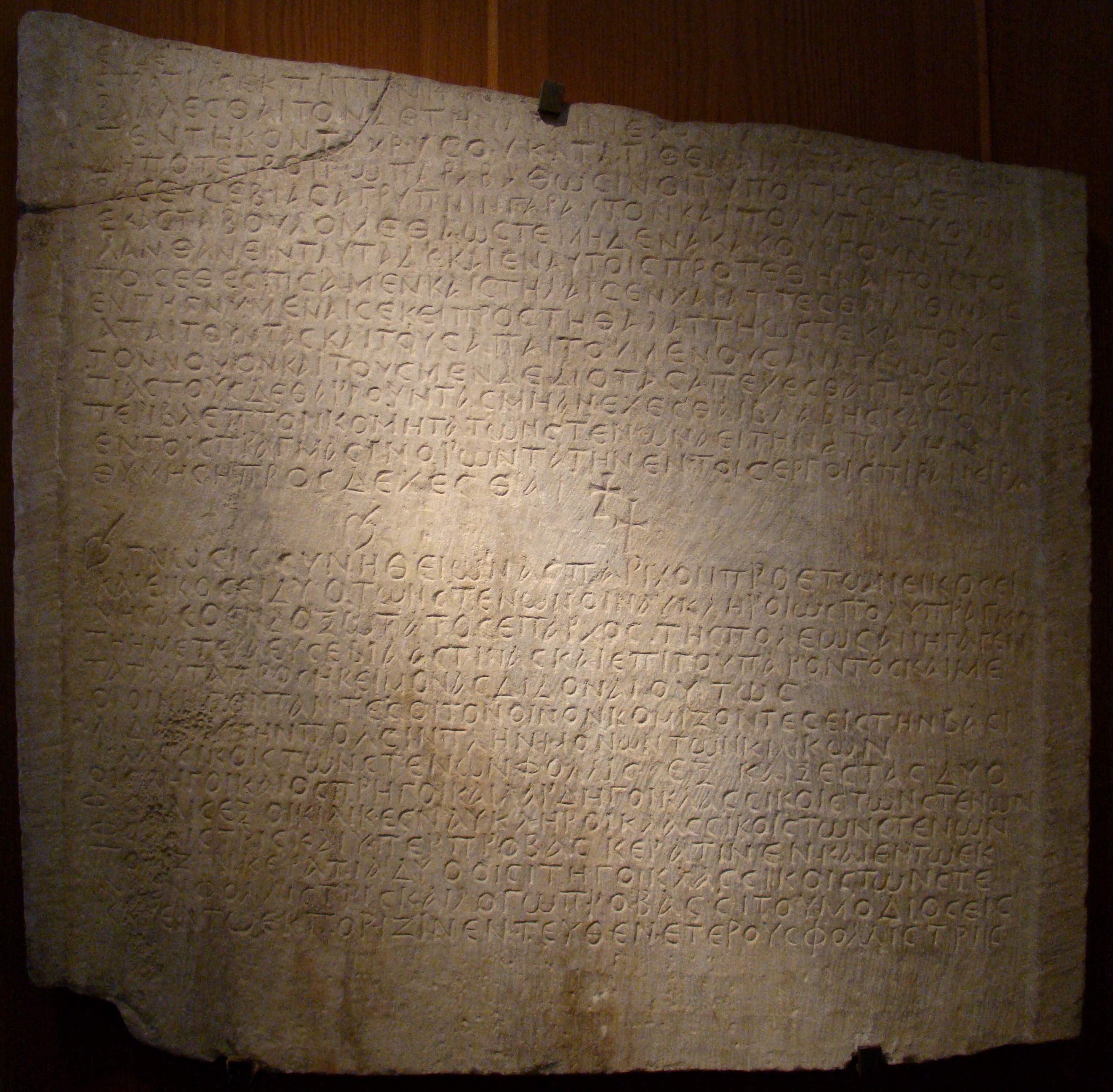 Law of the Byzantine Emperor Anastasius I (491-518 AD) regulating passage through Dardanelles' customs. Marble, found in Abydos, Canakkale, Turkey. Currently on display in the Istanbul Archaelogical Museum. The following translation to English is also displayed there: "... Whoever dares to violate these regulations shall no longer be regarded as a friend, and he shall be punished. Besides, the administrator of the Dardanelles must have the right to receive 50 golden Litrons, so that these rules, which we make out of piety, shall never ever be violated. We wish that the administrator never engage in any secret or evil activity, and that he will always be alert, efficient and hard-working. We have decreed that our orders be engraved on stone plaques and that these be erected as near as possible to the seashore, so that all men who want to may see them, and so that all other men we want to see them can see them... ... The distinguished governor and major of the capital, who already has both hands full of things to do, has turned to our lofty piety in order to reorganize the entry and exit of all ships through the Dardanelles, and change the rules which have been obeyed by sailors of the last 22 years. Starting from our day and also in the future, anybody who wants to pass through the Dardanelles must pay the following: - All wine merchants who bring wine to the capital (Constantinopolis), except Cilicians, have to pay the Dardanelles officials 6 follis and 2 sextarius of wine. - In the same manner, all merchants of olive-oil, vegetables and lard must pay the Dardanelles officials 6 follis. Cilician sea-merchants have to pay 3 follis and in addition to that, 1 keration (12 follis) to enter, and 2 keration to exit. - All wheat merchants have to pay the officials 3 follis per modius, and a further sum of 3 follis when leaving."